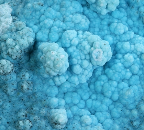 Glaucocerinite (Size: 7.7 x 5.2 x 1.8 cm) Locality: Lavrion (Laurion; Laurium), Lavrion District Mines, Lavrion (Laurion; Laurium) District, Attikí (Attica; Attika) Prefecture, Greece (Locality at ) Glaucocerinite is a fairly rare zinc copper aluminum sulfate that is only found in a handful of worldwide localities. The mineral is known for it's amazingly beautiful blue hues, which makes sense since it's name is derived from the word Glaucous (the Latin glaucus means "bluish-grey or green", and the Greek glaukos is used to describe the pale grey or bluish-green appearance of the surfaces of some plants). Laurion is the most well-known locality for this mineral, along with being the type locality. This piece is an excellent Glaucocerinite featuring dozens of small greenish-blue botryoids on matrix.